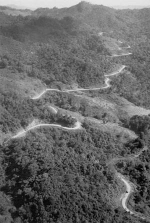 Aerial view of the first World War II convoy to go from India to China over the re-opened Burma Road. (DA photograph)